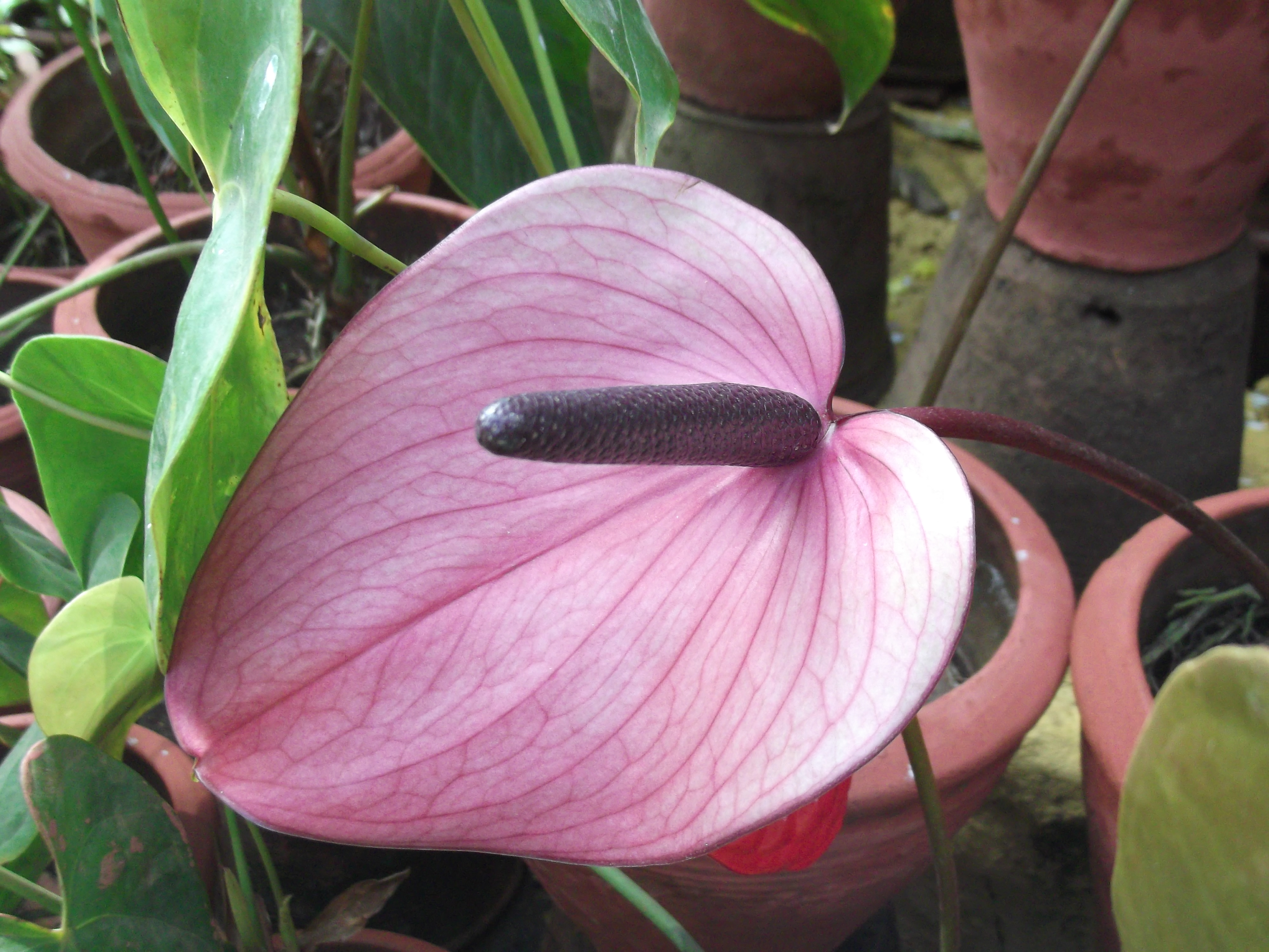 Purple spathe.